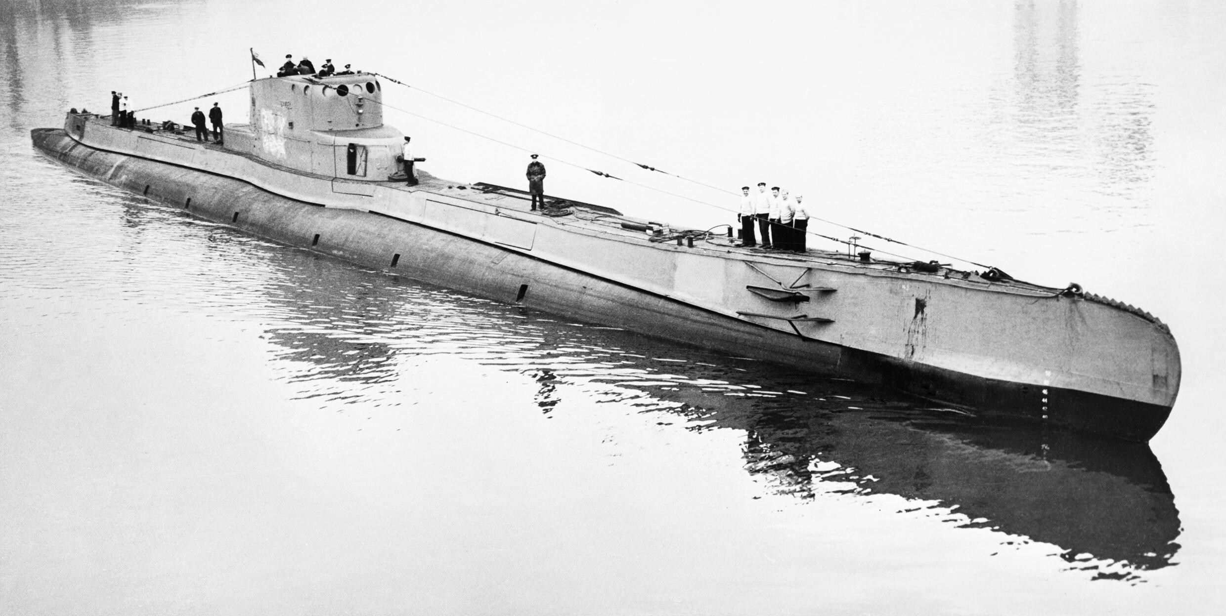 The Polish Navy during the Second World War The Polish Navy submarine ORP Orzeł (Eagle) returning to her depot ship at Rosyth after taking part in operations off Norway where she accounted for two enemy transport ships. She was lost in the North Sea, probably mined, on 8 June 1940.